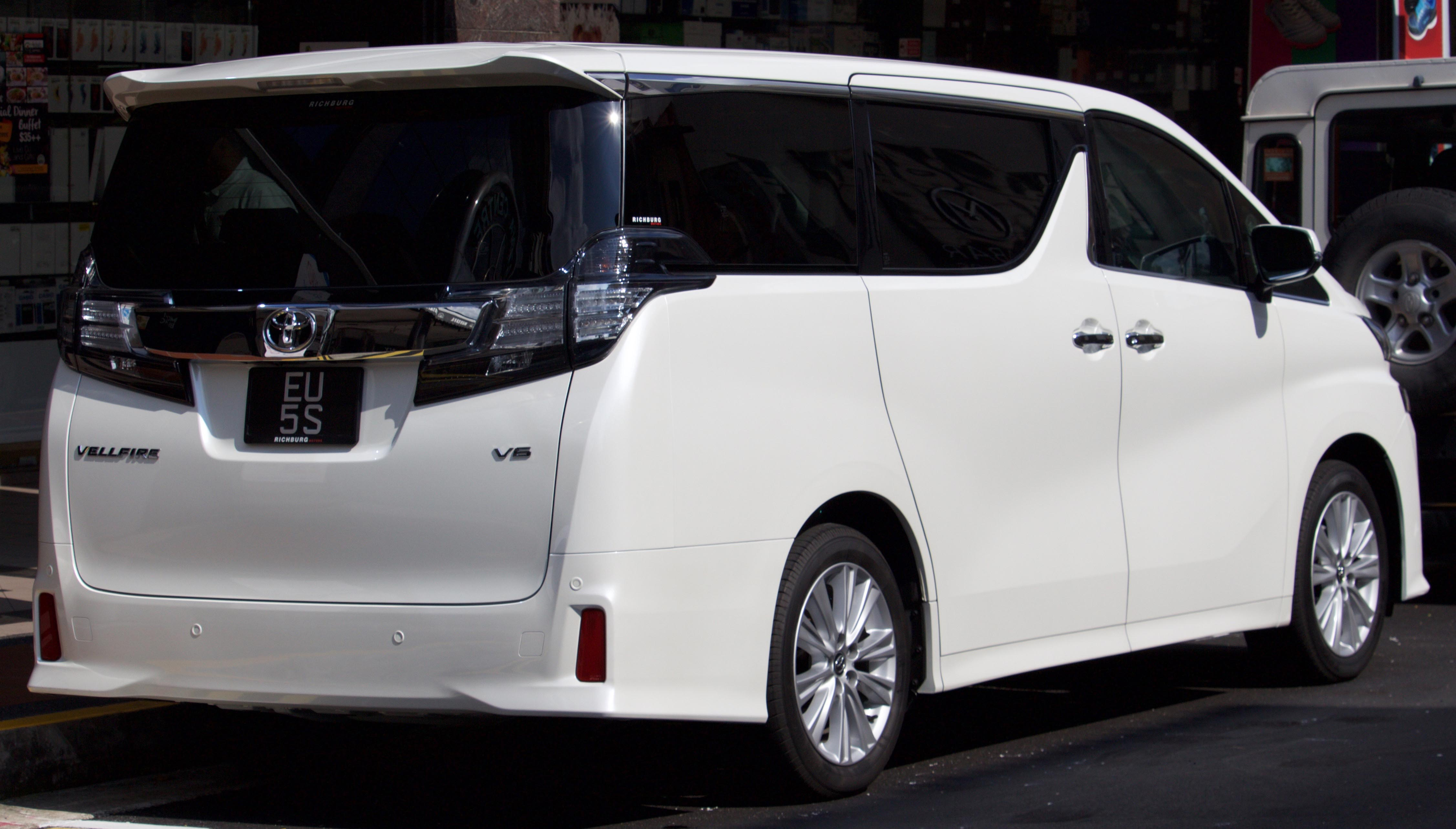 2015 Toyota Vellfire ZA van, photographed at Little India, Singapore. Vehicle registration enquiry resultsJurisdictionSingaporeRegistrationEU5SChassis codeGGH300005603Engine code2GRK106382Year of manufacture2015